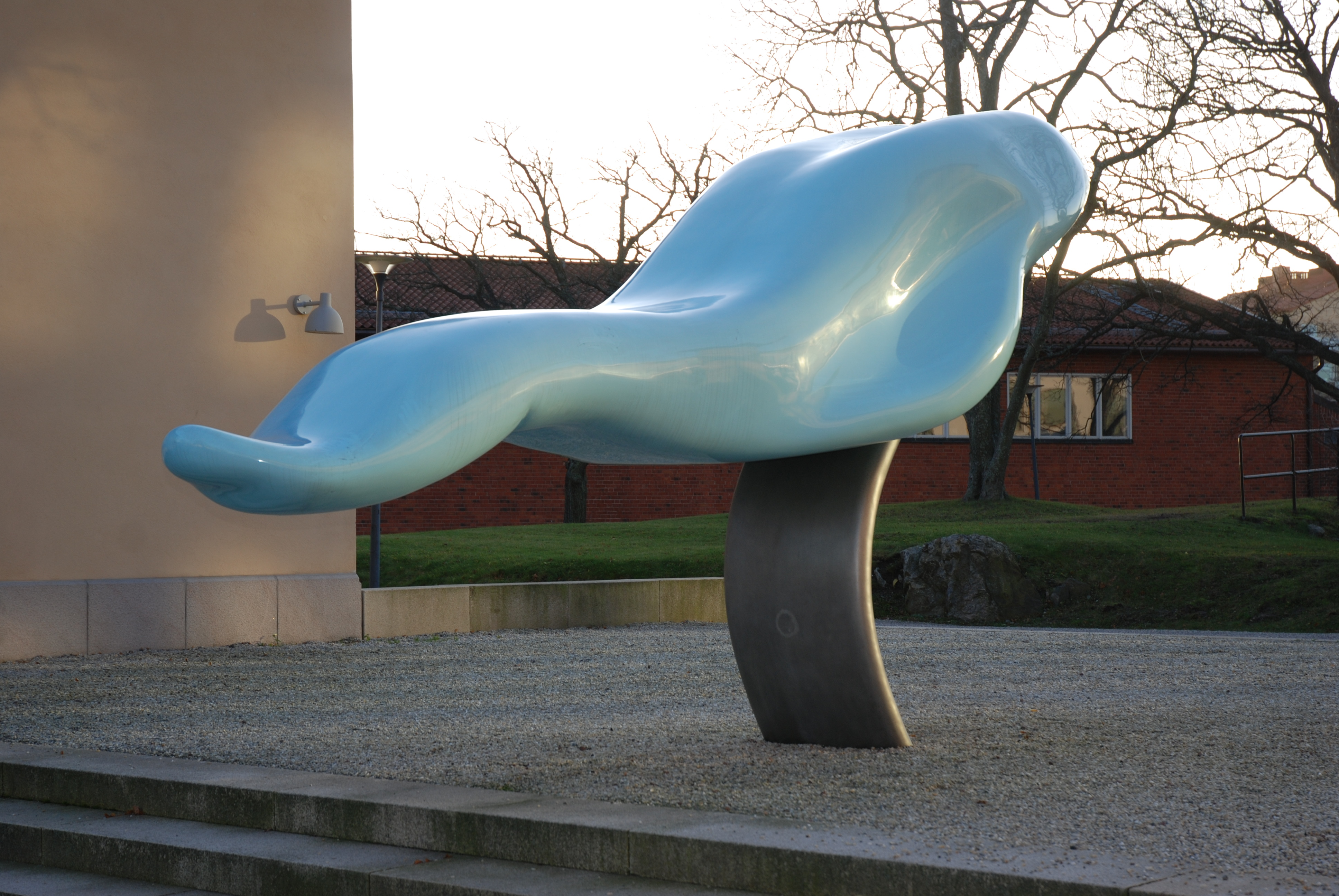 Johan Paalzow´s sculpture Moby Dick (2004), Konradsberg, Stockholm, Sweden